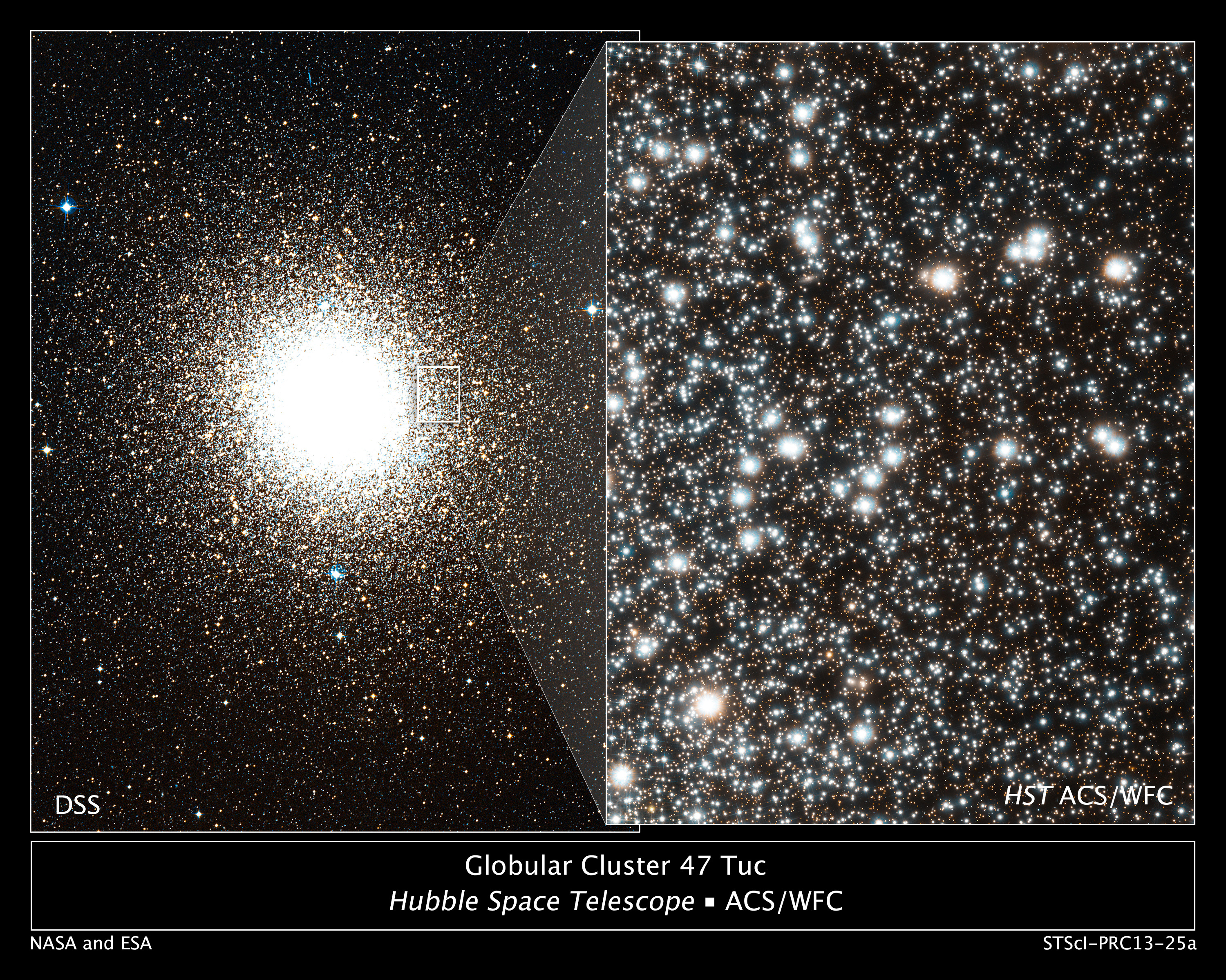 These images showcase the ancient globular cluster 47 Tucanae, a dense swarm of up to a million stars. The image on the left shows the entire cluster, which measures about 120 light-years across. Located in the southern constellation Tucana (The Toucan), the cluster is about 16700 light-years away. The image is part of the Digitized Sky Survey (DSS) and was taken by the UK Schmidt Telescope at Siding Spring Observatory in New South Wales, Australia. The white rectangular box outlines the view taken by the NASA/ESA Hubble Space Telescope. That image, shown at right, captures close-up views of thousands of cluster stars. The large bright stars in the image are red giants. These stars have puffed up to several times their normal size because they have exhausted their nuclear fuel and are near the end of their lives. The image was taken by Hubble's Advanced Camera for Surveys. Astronomers used these Hubble observations along with archival Hubble data of 47 Tucanae to accurately measure the changes in positions of more than 30 000 cluster stars. Based on those measurements, the astronomers pieced together the stars' histories, finding two populations of stars that have different chemical compositions and different motions. Understanding the dynamics of the 47 Tucanae stars can yield insights into how this cluster formed its stars. The Hubble image was taken between January and October 2010. The Schmidt telescope image was taken Oct. 12, 1977, and Sept. 9, 1989.